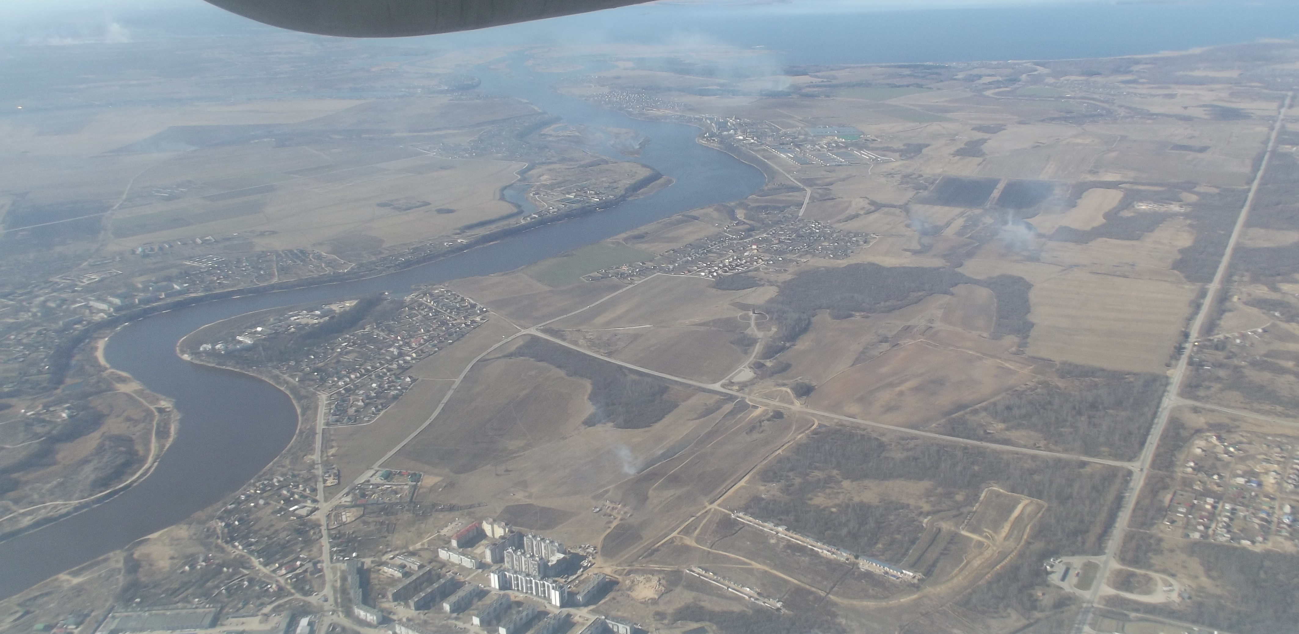 The Velikaya river flows into lake Pskovskoe.